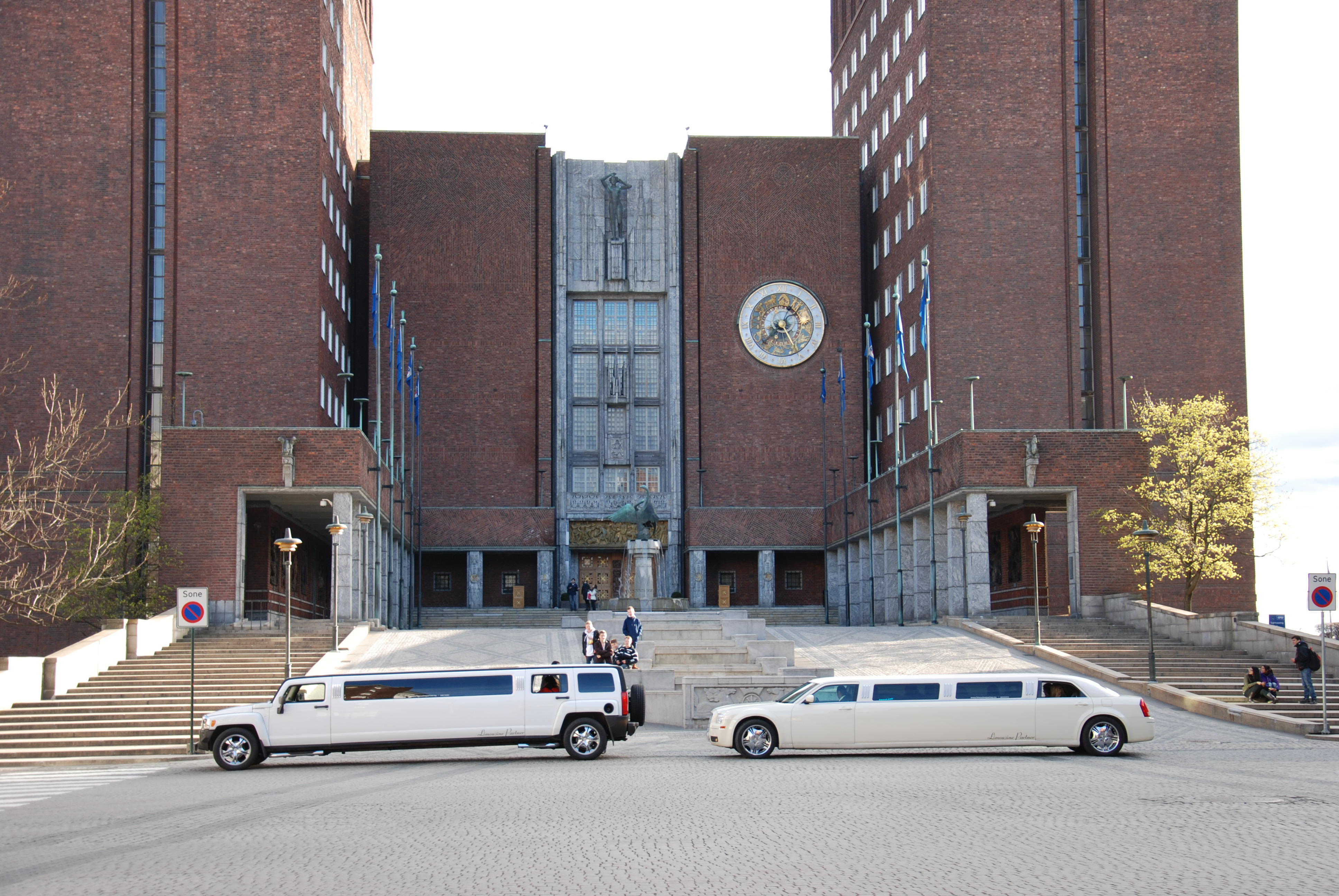 Limousiner framför Oslo rådhus